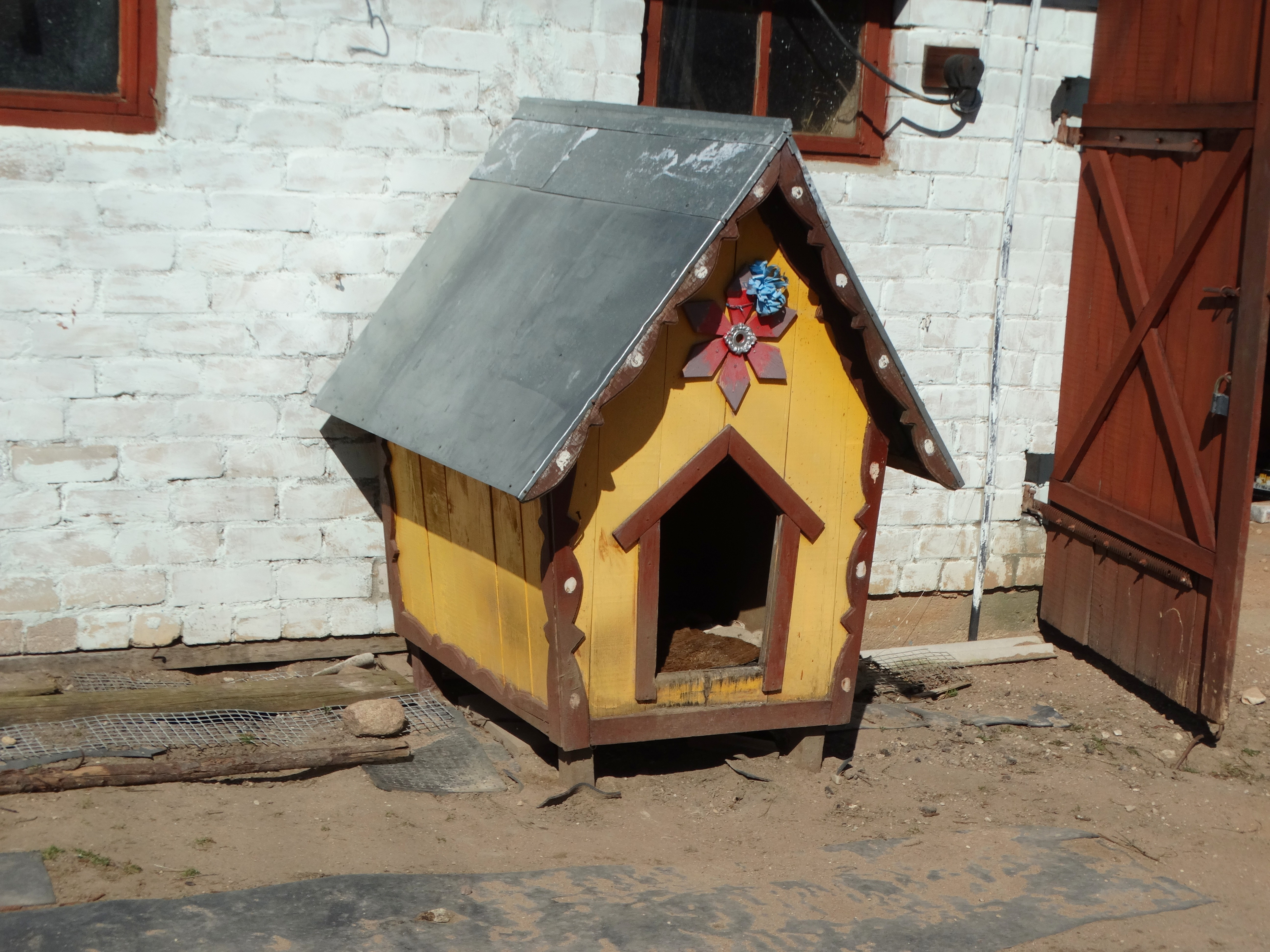 Doghouse, Meldučiai, Anykščiai district, Lithuania